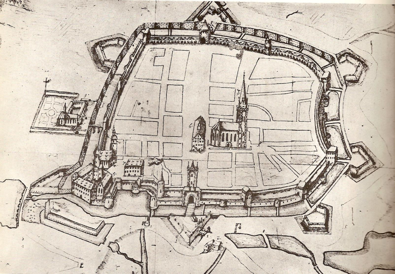 Map of the city wall of Neumarkt in der Oberpfalz in 1675